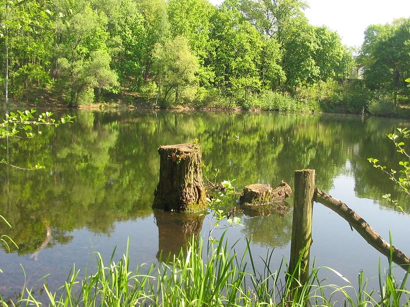 "Murellenteich" pond, a natural monument. The Murellenberge, the Murellenschlucht and the Schanzenwald (german for: Murellenhill, Murellenravine, Sconceforest) are a hill-landscape from the last gacial period in Berlin-Ruhleben in the district Charlottenburg-Wilmersdorf. It is part of the Teltow-Plateau at its northside in Berlin. In the hills there is the memorial Denkzeichen zur Erinnerung an die Ermordeten der NS-Militärjustiz am Murellenberg (german for: Thought-Signs to commemorate the victims of Nazi military justice at Murellenberg), created by the argentine, in Berlin living, artist Patricia Pisani in 2002.